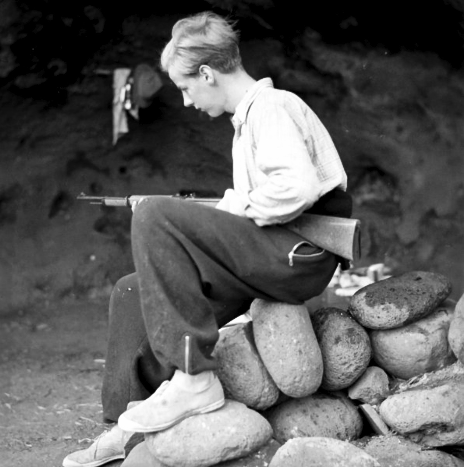 Arnold Ernst Fanck (* 1919), the son of German moviemaker Arnold Fanck (1889–1974) in Chile on set for the German movie A German Robinson Crusoe.